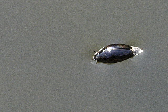 Picture taken in Commanster, Belgian High Ardennes . Species: Gyrinus substriatus